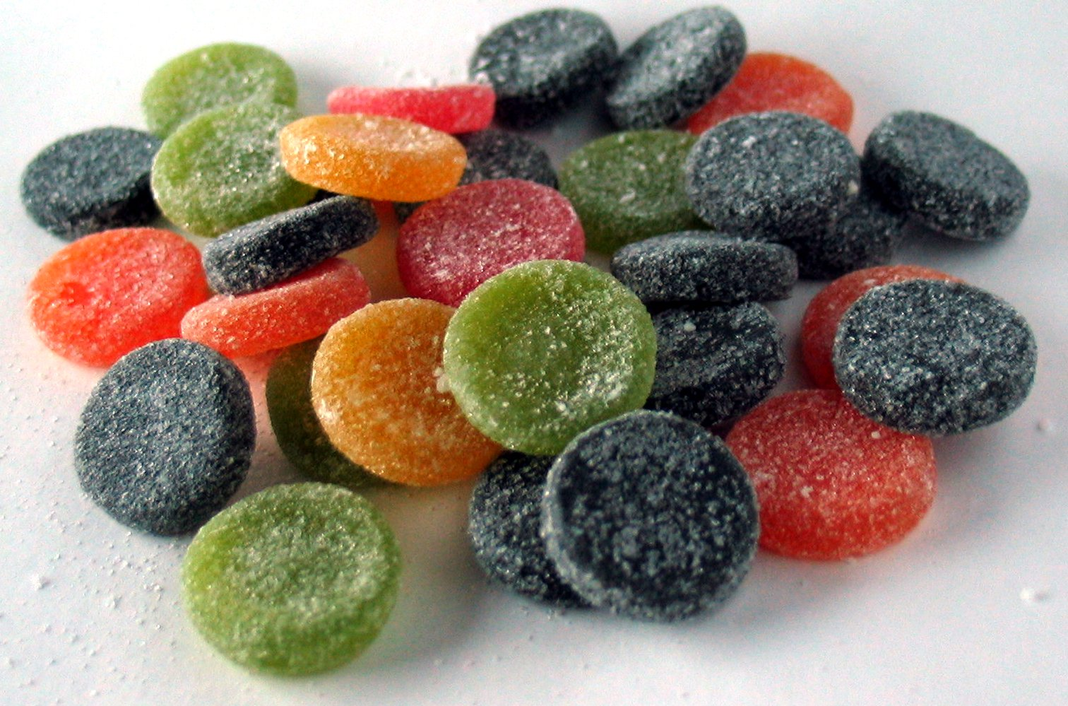 Finnish Pantteri Candies in different colors from Pantteri Mix. Black ones are salmiakki flavour and colored are fruit flavour. The white powder is sugar. In black ones sugar and ammonium chloride. The scene was lit using only my CRT as a light source.